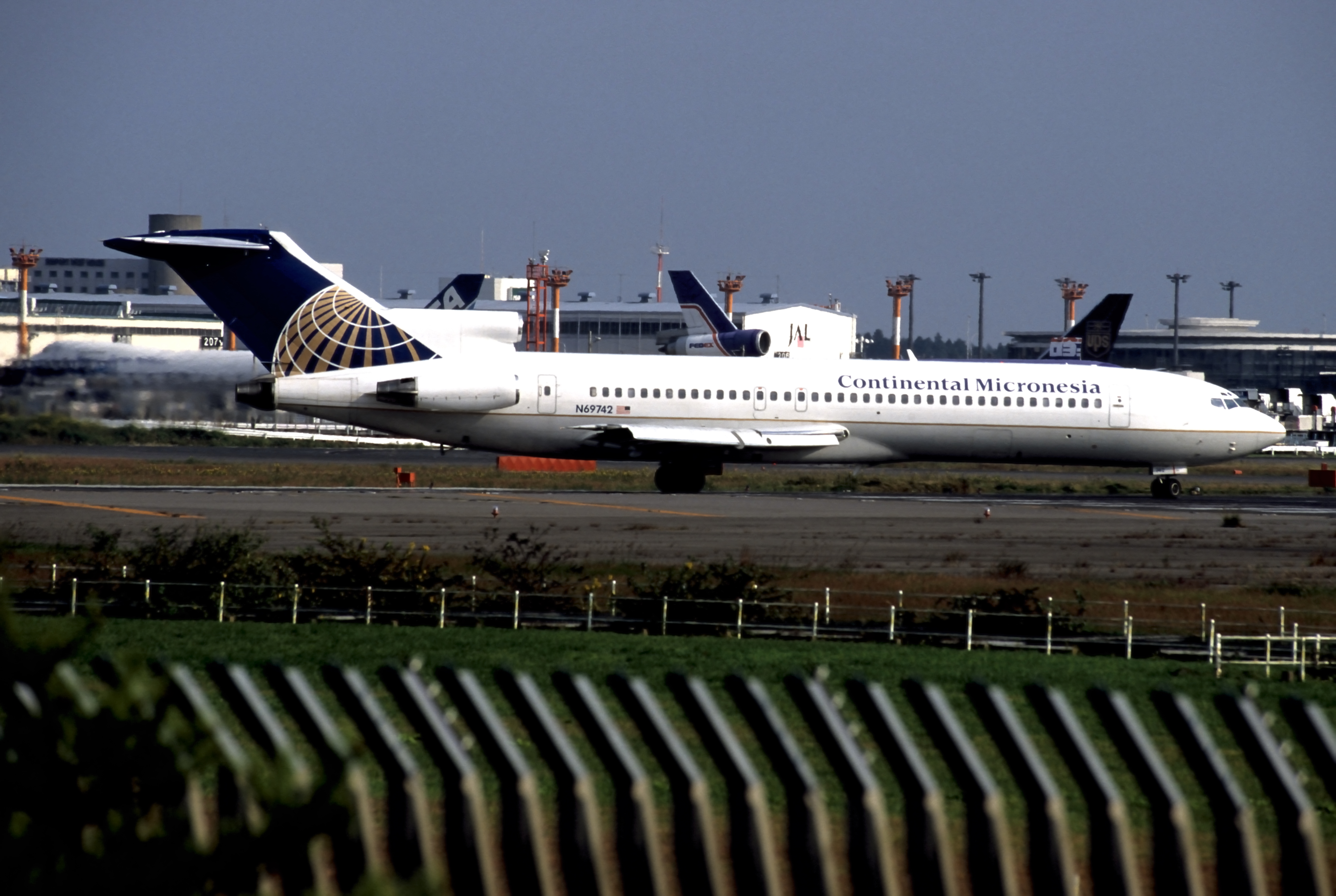 CONTINENTAL MICRONESIA B727-224 Adv (N69742/22251/1687)